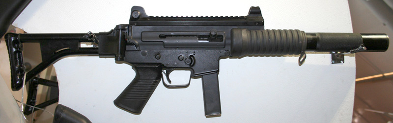 Pindad PM-2 9mm submachine gun, taken at Indo Defence 2008.